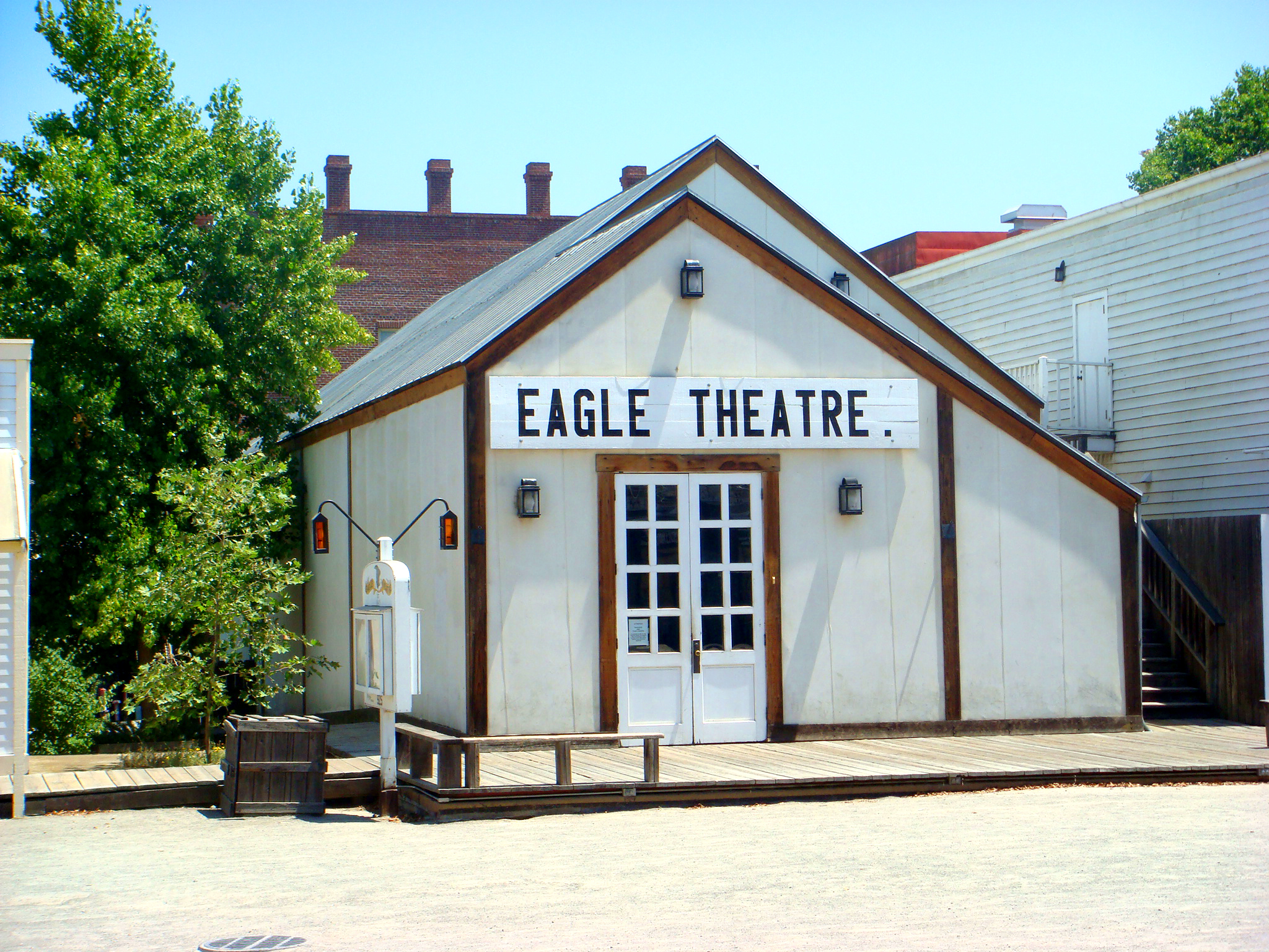 The Eagle Theatre in Sacramento. Originally erected in 1849, the building was rebuilt in 1974.